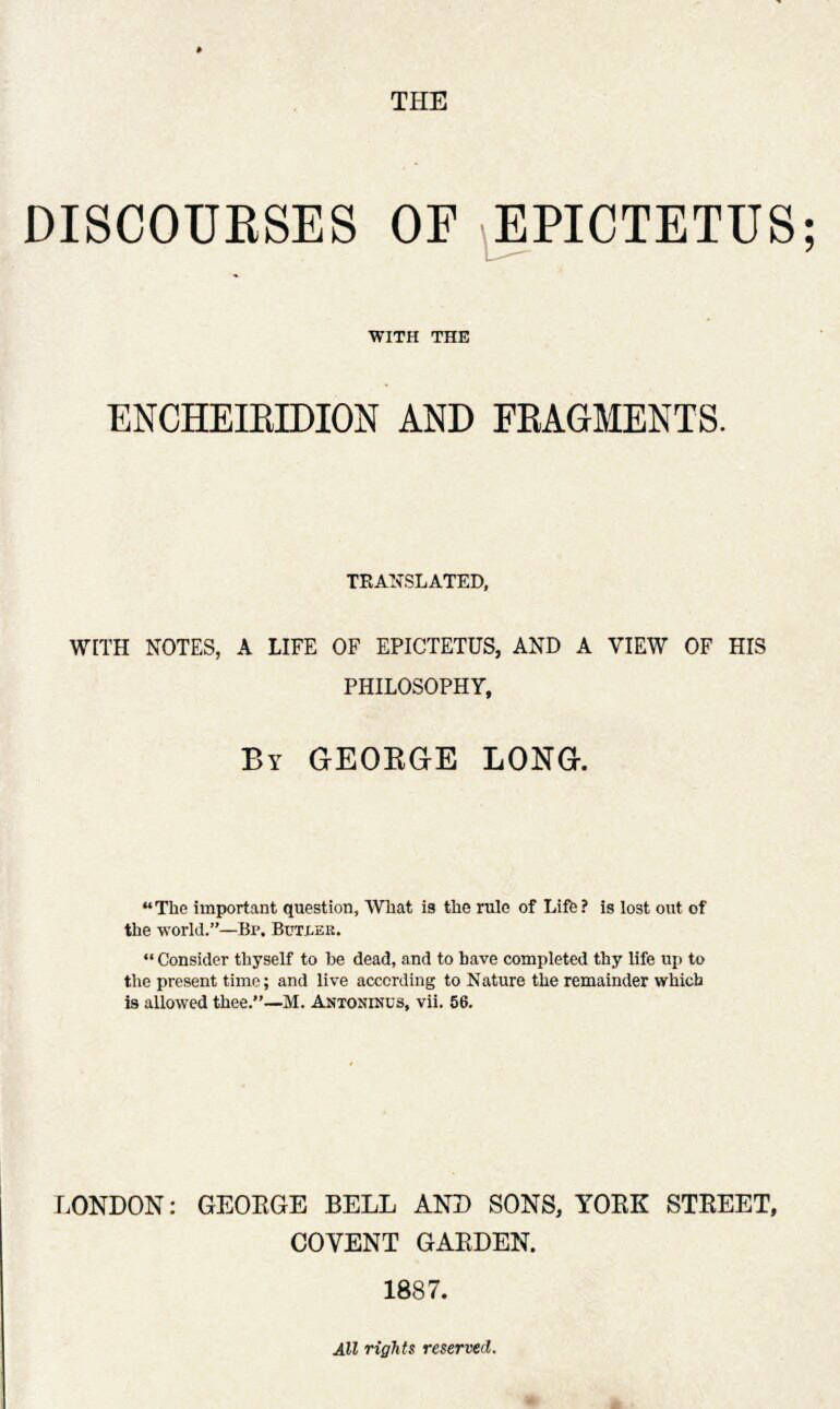 Title page of 'The Discourses of Epictetus', 1887.